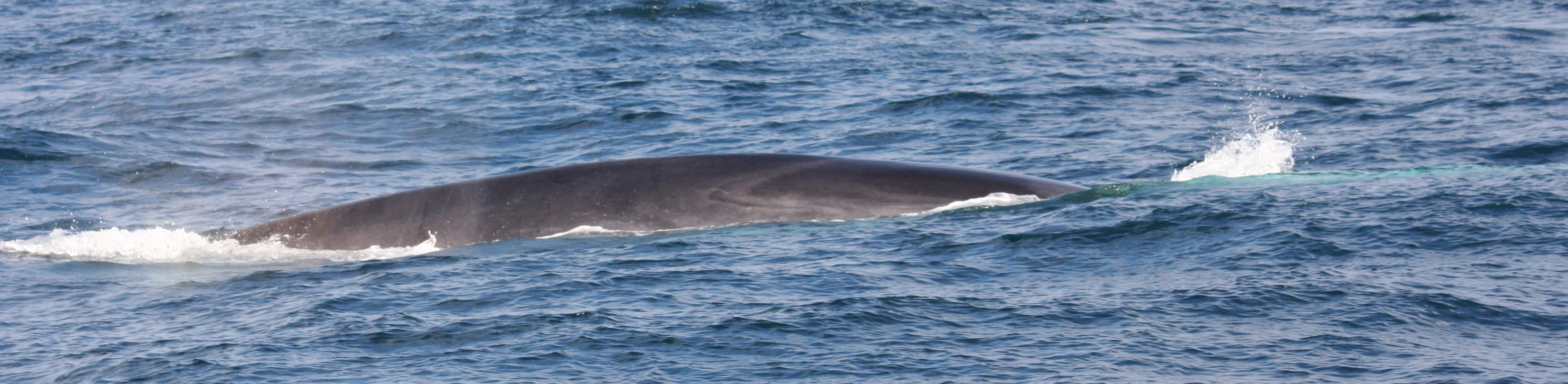 Fin whale in the Porcupine Seabight showing chevron and interstripe wash